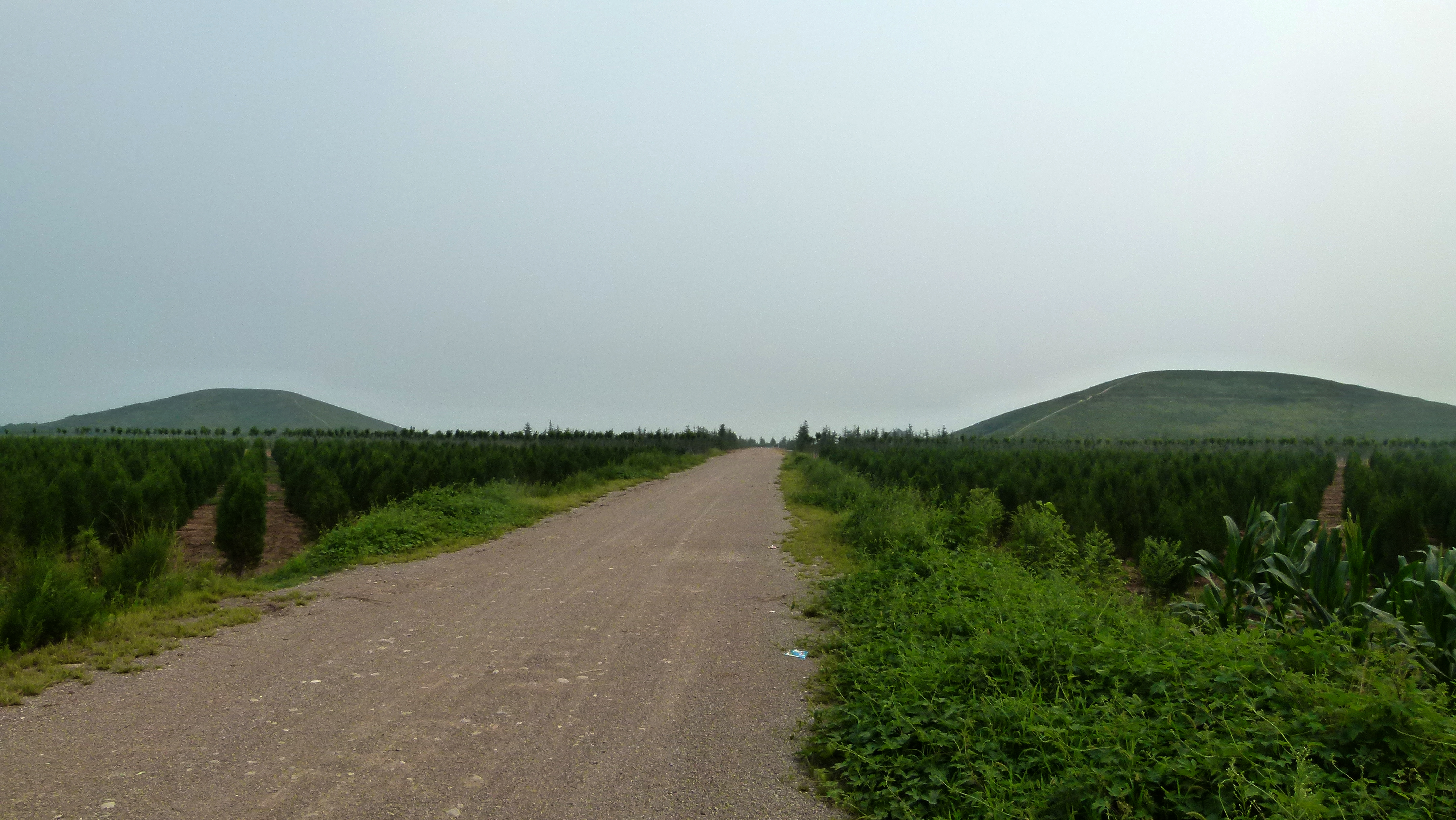 Changling